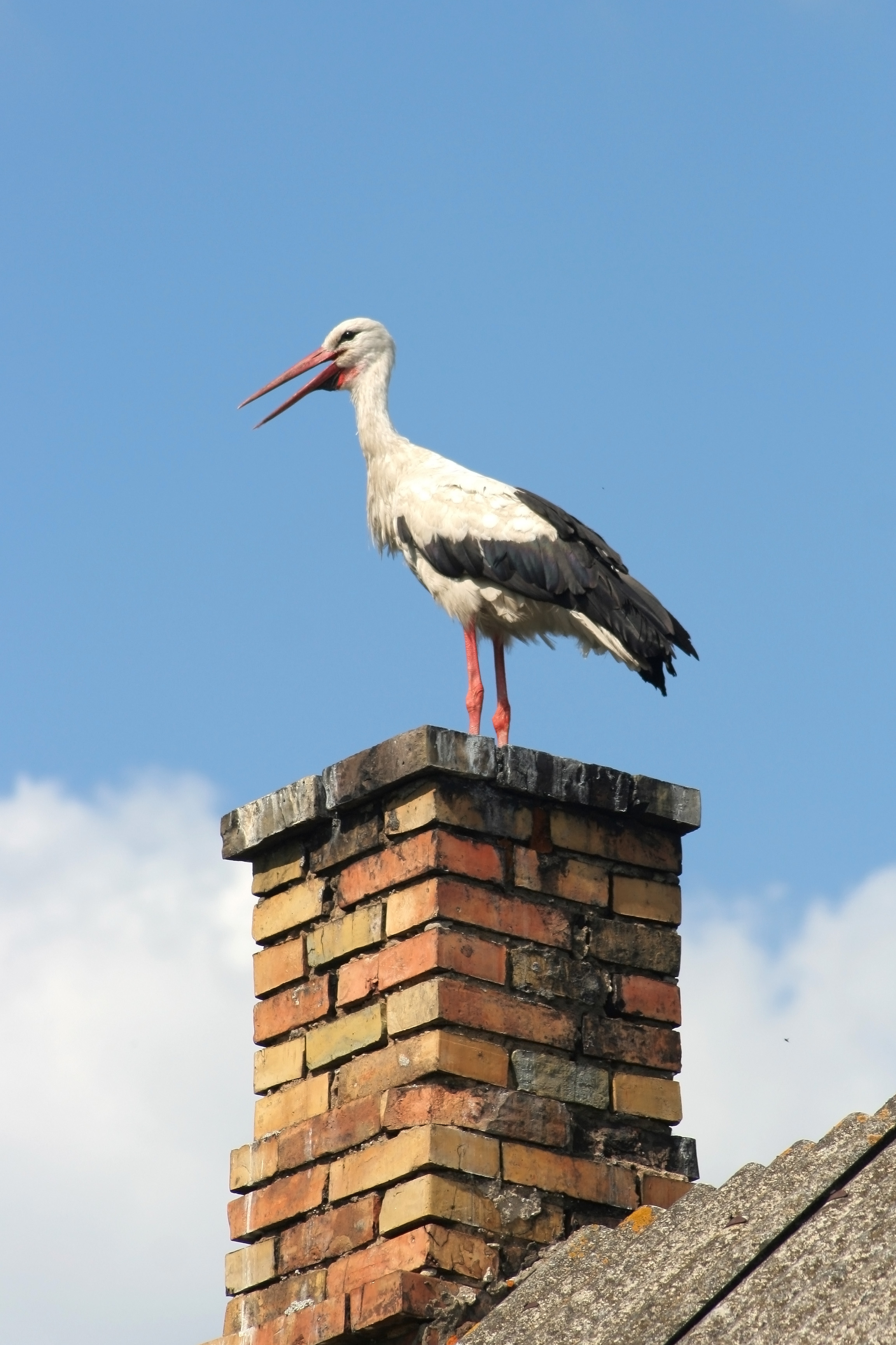 Ciconia ciconia in Słuczanka.